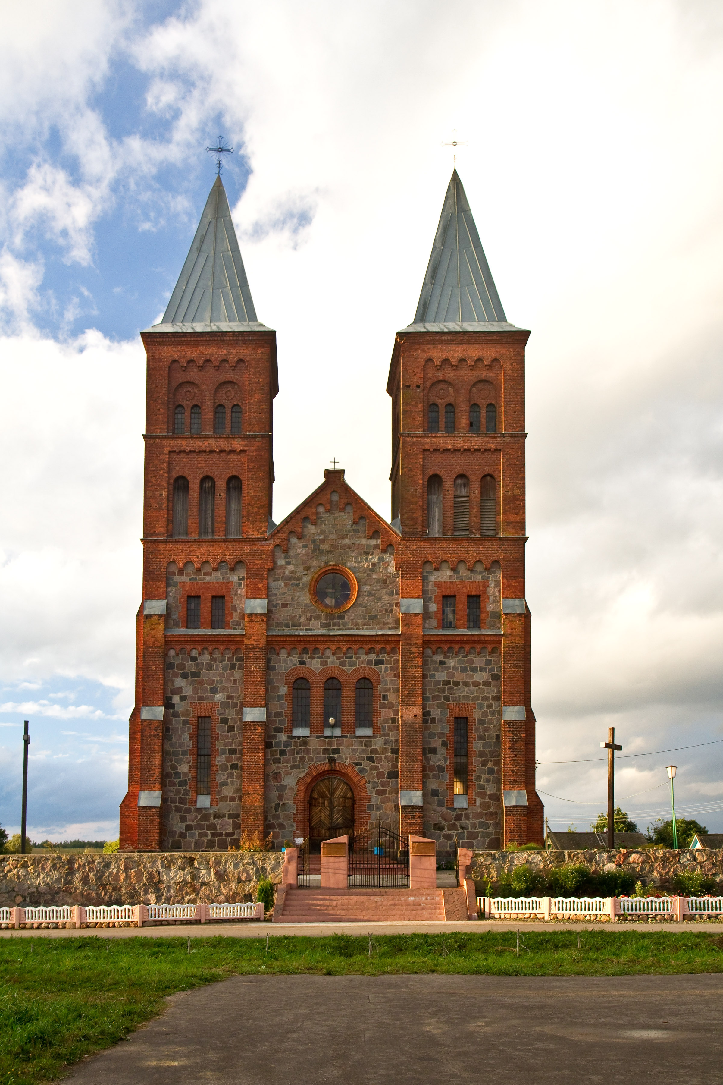 Catholic church of the Corpus Christi. Ikaźń village, Brasłaŭ district, Viciebsk province, Belarus.